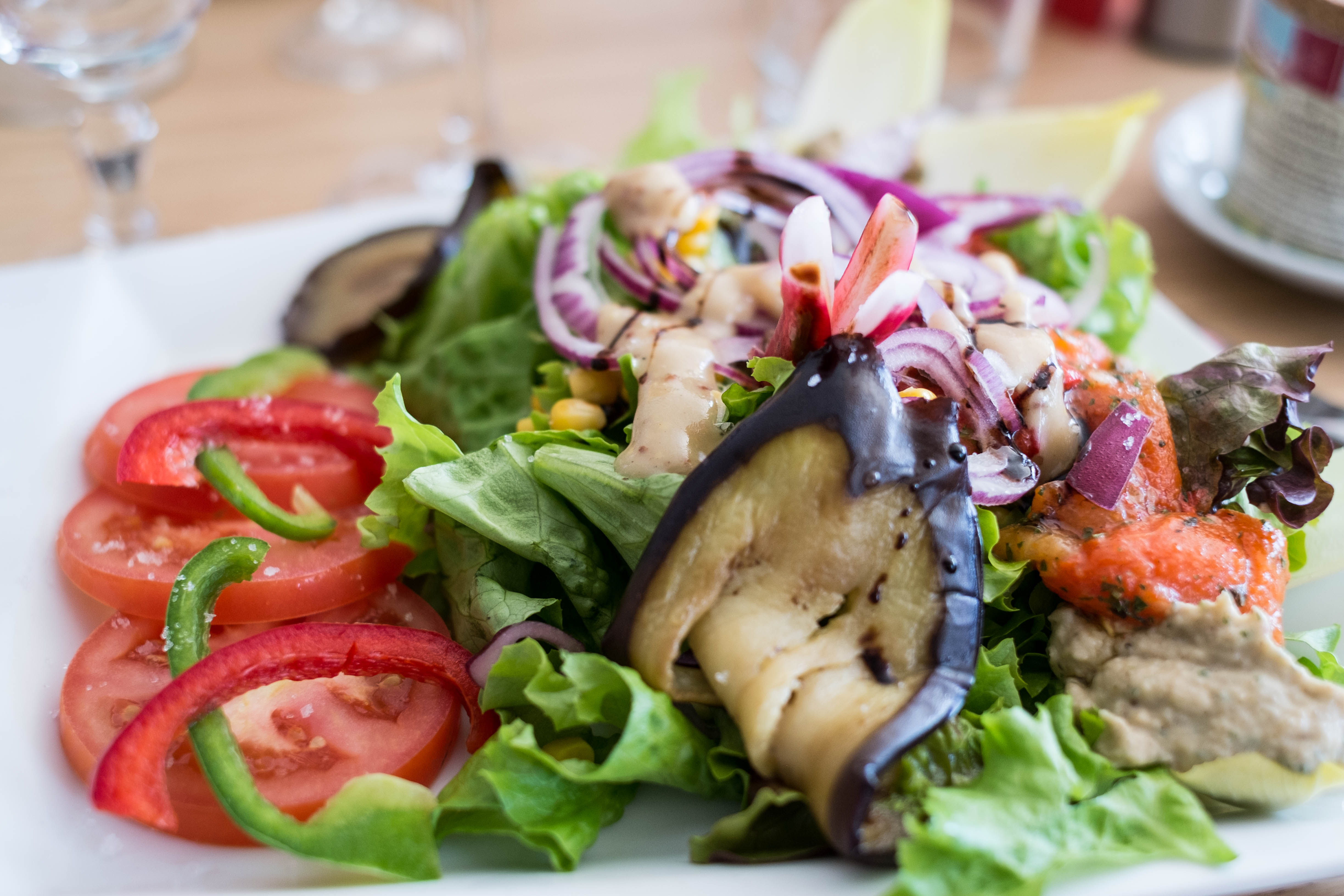 2016 Bapteme Anais Lois